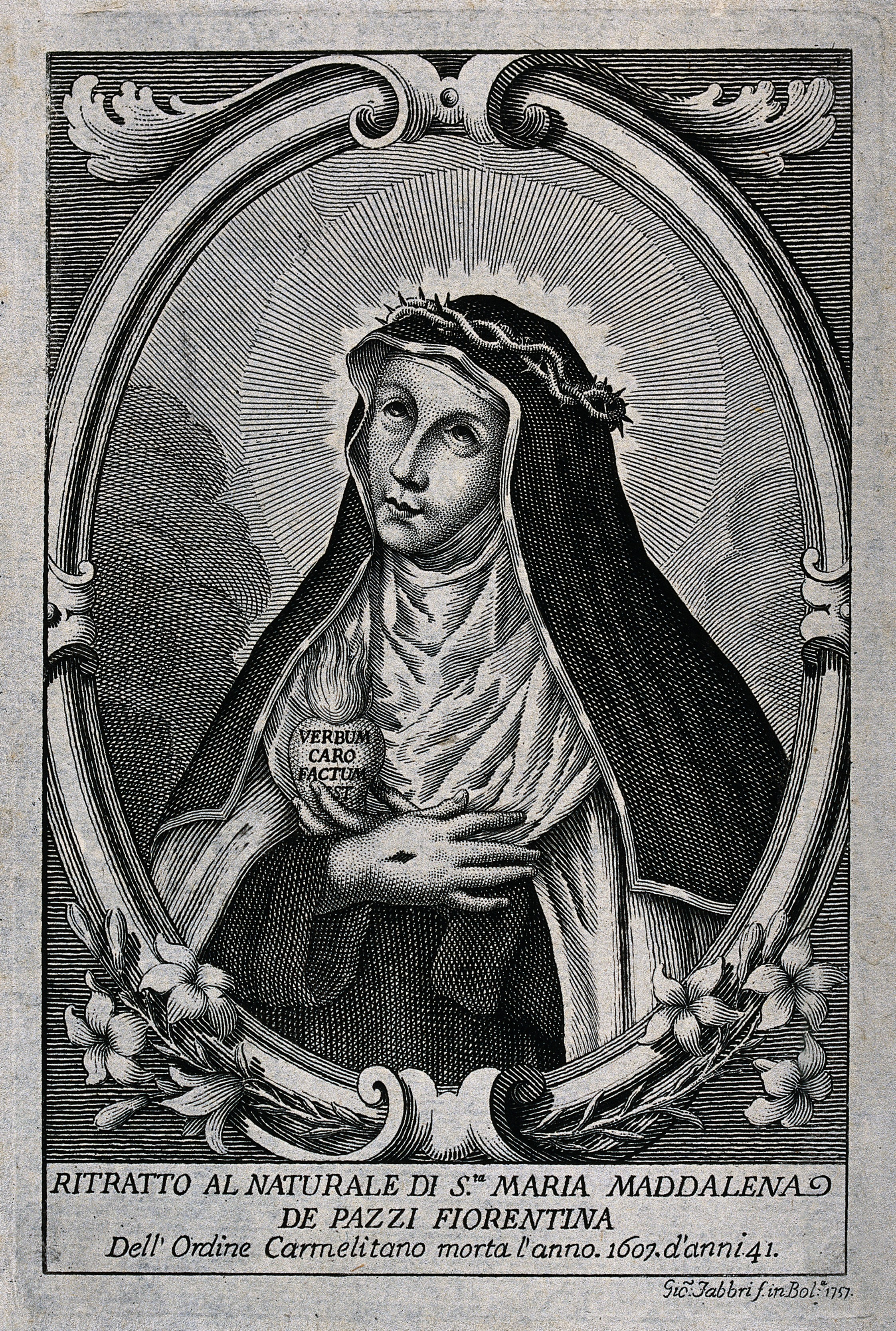 Saint Mary Magdalen dei Pazzi. Etching by G. Fabbri, 1757. Iconographic Collections